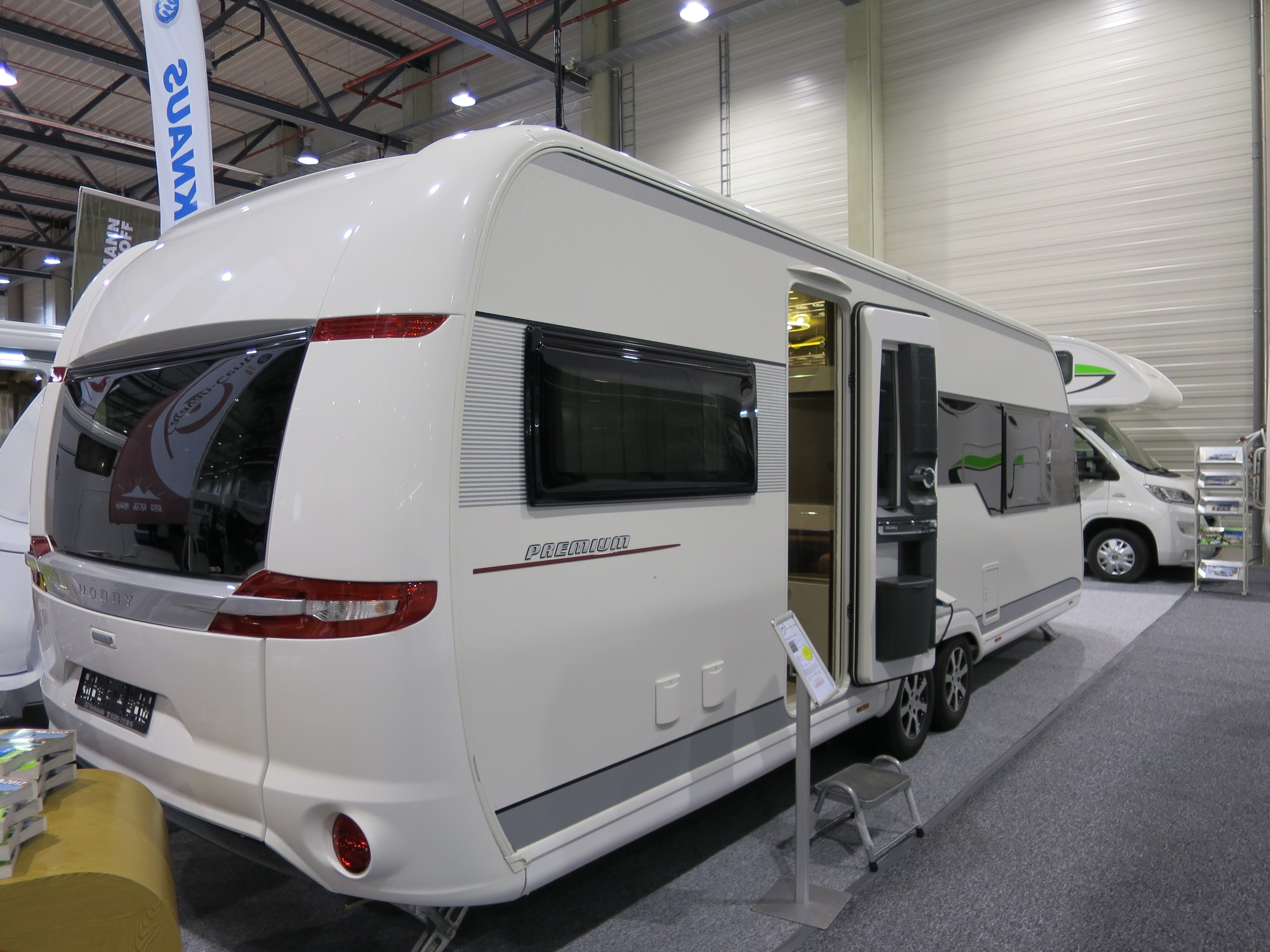 Hobby Premium 650 UFe.